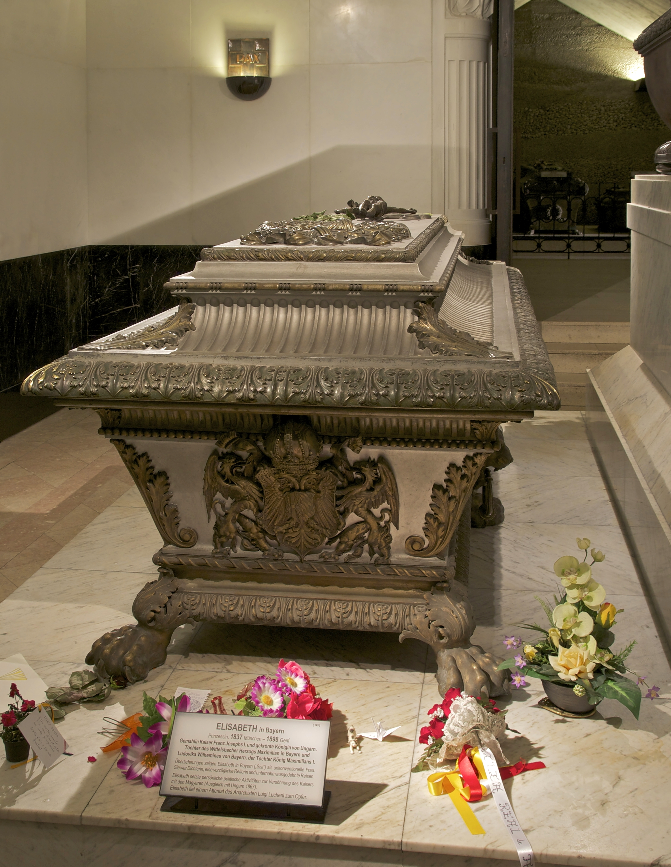 Sarcophagus of Empress Elisabeth of Austria ("Sisi"), Kapuzinergruft, Vienna, Austria.